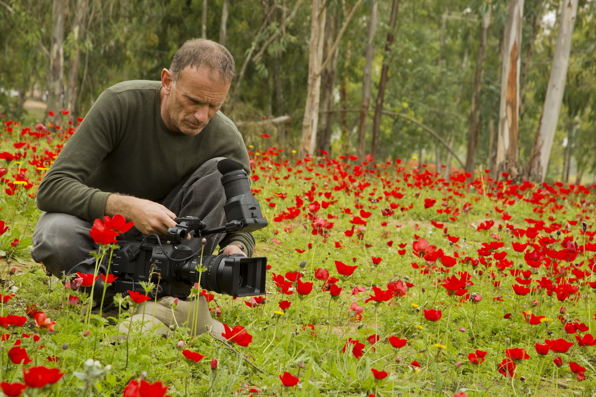 Eyal Bartov - Photographer